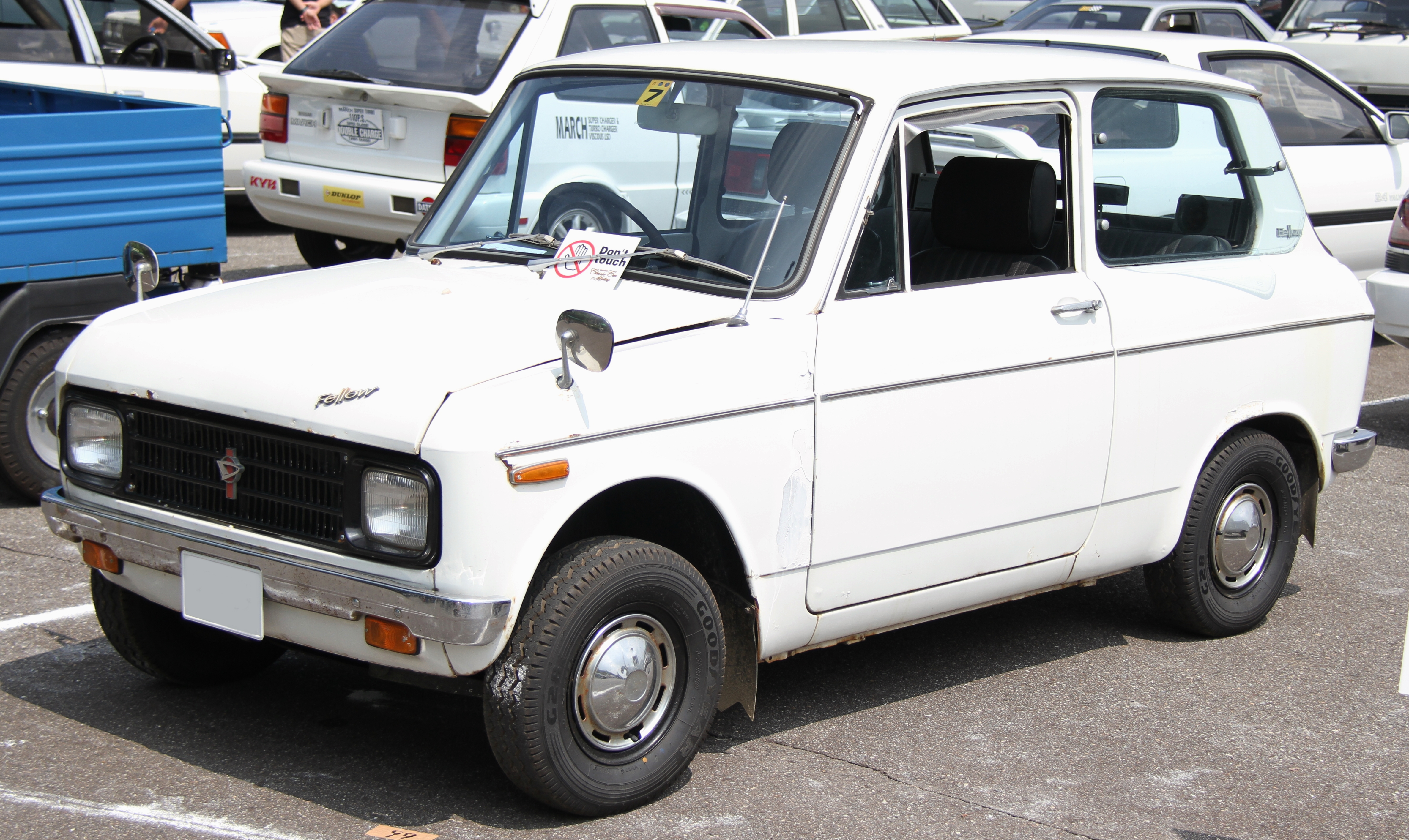 Daihatsu Fellow sedan, late facelifted version